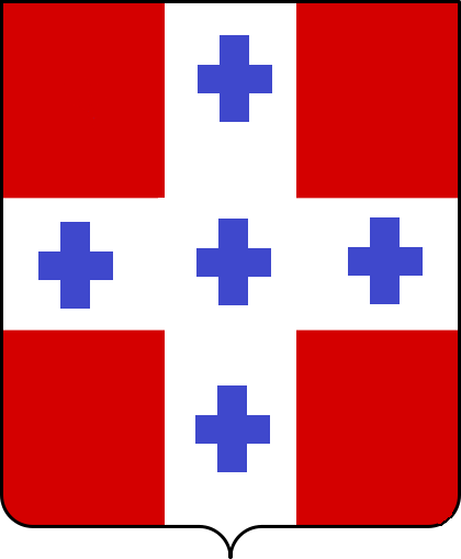 coat of arms og the Marchional Family of the Savoy-Racconigi